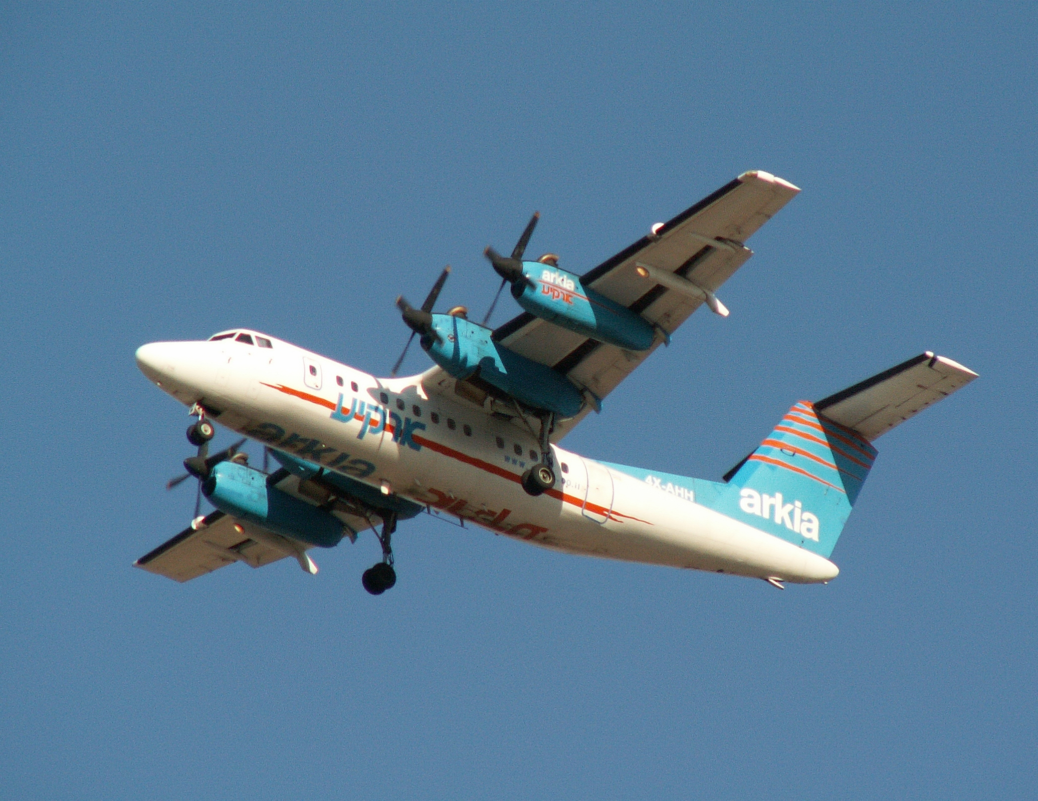 4X-AHH at Sde Dov Ait Port